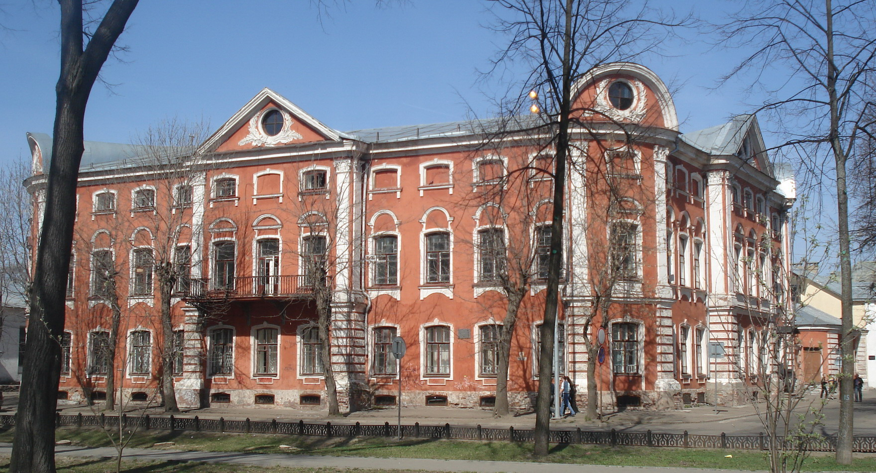 Manor of Vahrameev